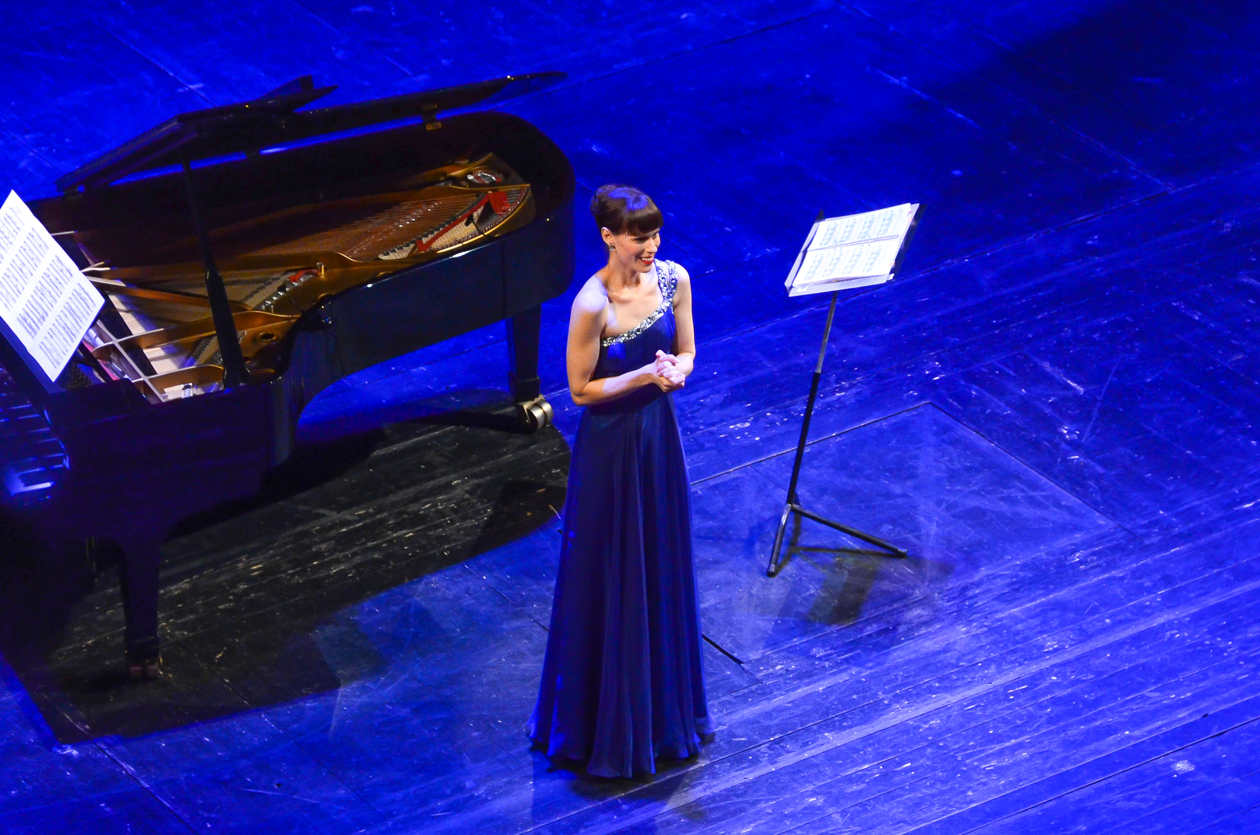 Ida Falk Winland at the Royal Opera in Stockholm during Culture Night 2018.